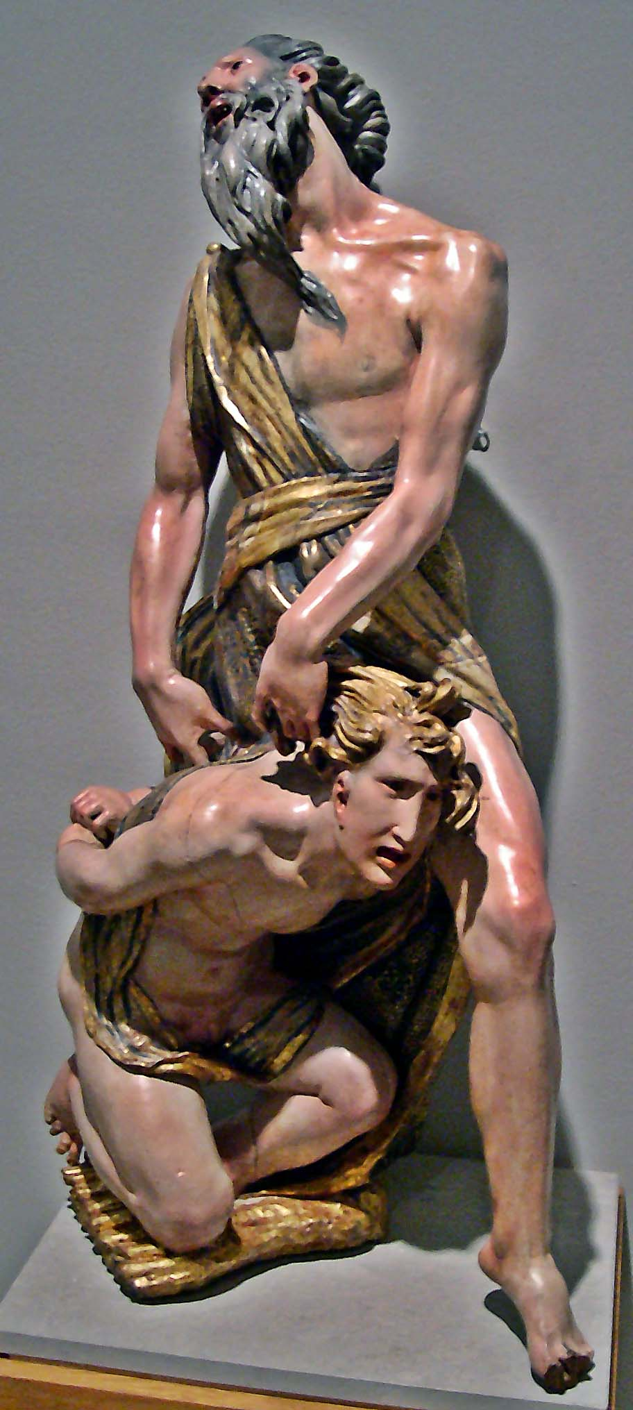 The Binding of Isaac, sculpture in polychromed wood, part from the altarpiece of St. Benedict monastery, in Valladolid (Spain), actually exposed in the Museo Nacional de Escultura de Valladolid